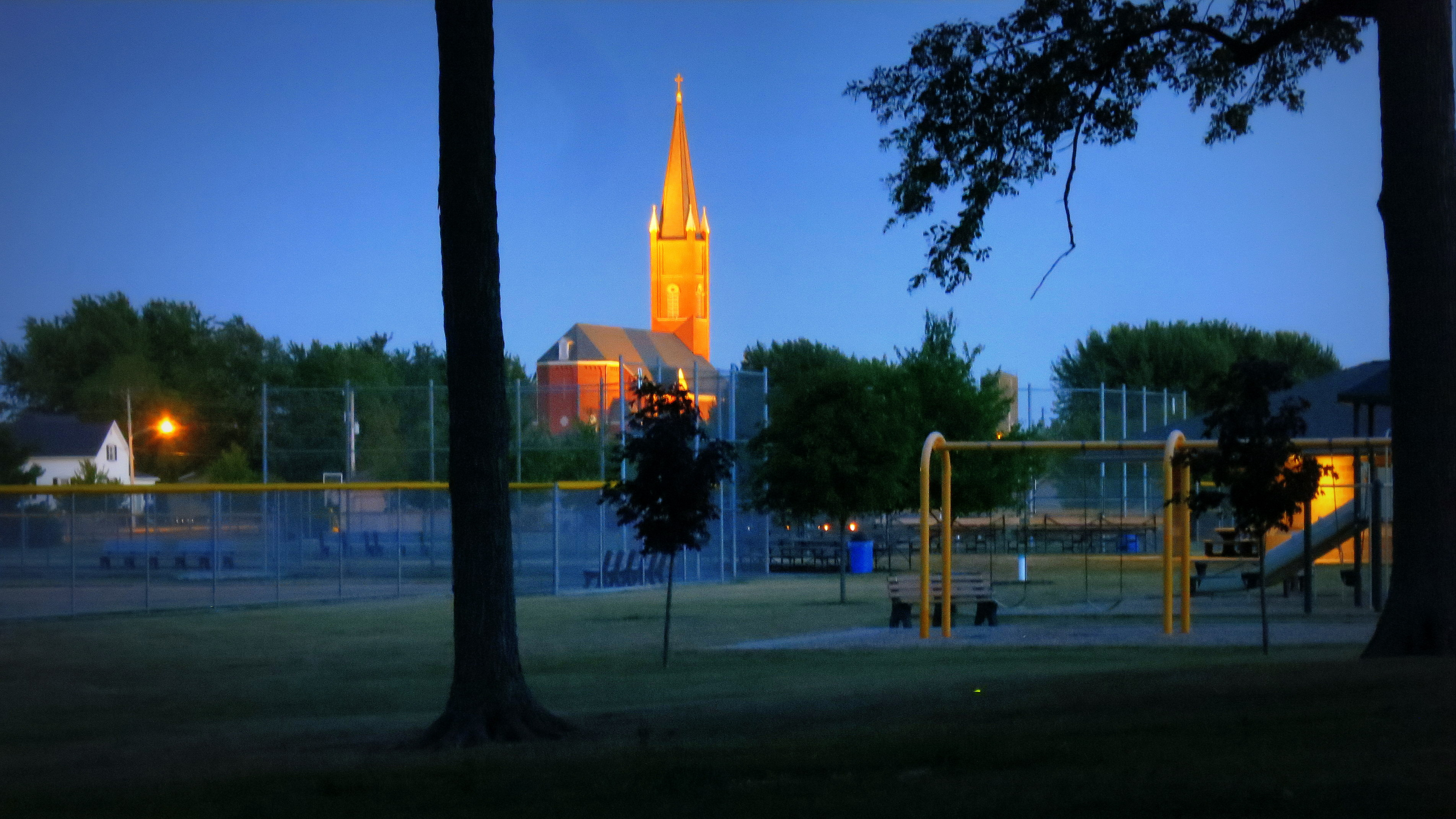 Saint John the Baptist (Maria Stein, Ohio) - view from Shrine park